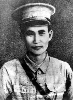 Liu Zhidan(1903-1936), a Chinese Red Army's leader